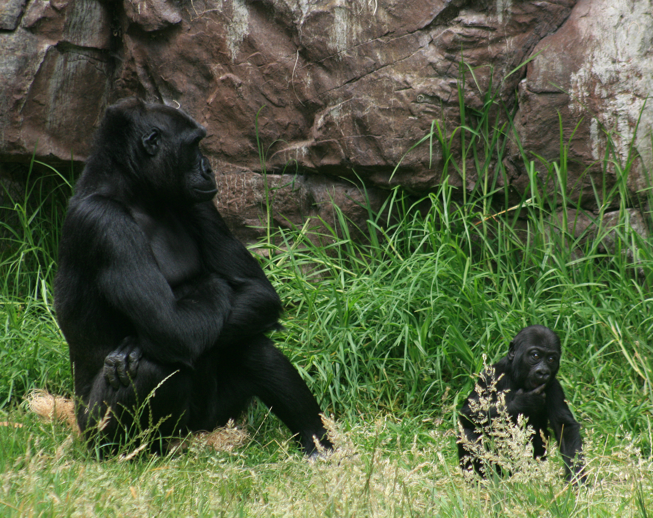 Female Gorilla and eight-months old male baby gorilla in San Francisco Zoo, USA. The baby gorilla is named Hasani and the adult female is its surrogate mom